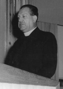 Title: Dresden, 9. CDU-Parteitag, 2.Tag, Rede Plojhar People in the image: Plojhar, Josef Dr.: Minister für Gesundheitswesen, CSSR Factual corrections and alternative descriptions are encouraged separately from the original description. Additionally errors can be reported at this page to inform the Bundesarchiv. Original historic description: Zentralbild Löwe 2.10.1958 - 9. Parteitag der CDU in Dresden 2. Tag: UBz: Das Ehrenmitglied der CDU und Minister für Gesundheitswesen der CSR, Dr. Josef Plojhar während seiner Ansprache.